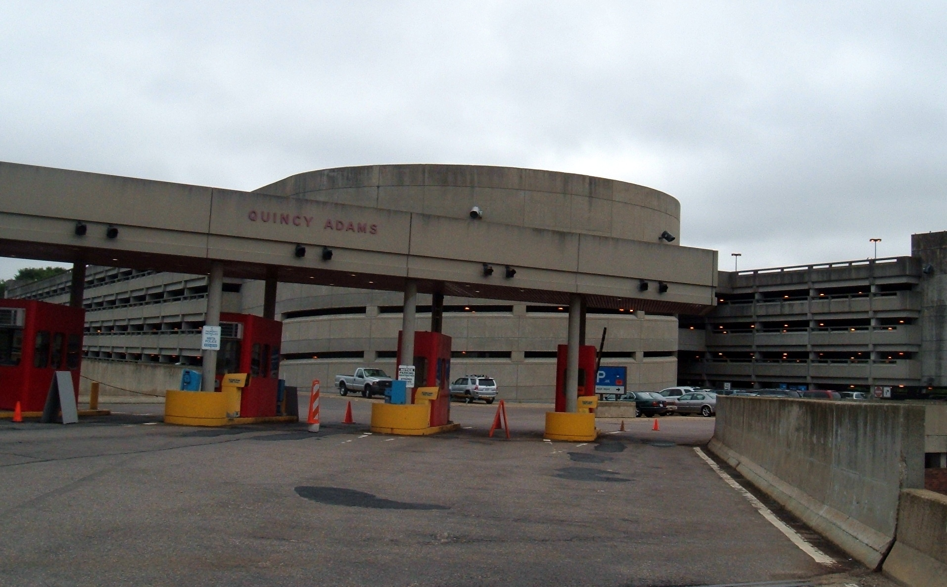 Parking garage of Quincy Adams station on the MBTA Red Line